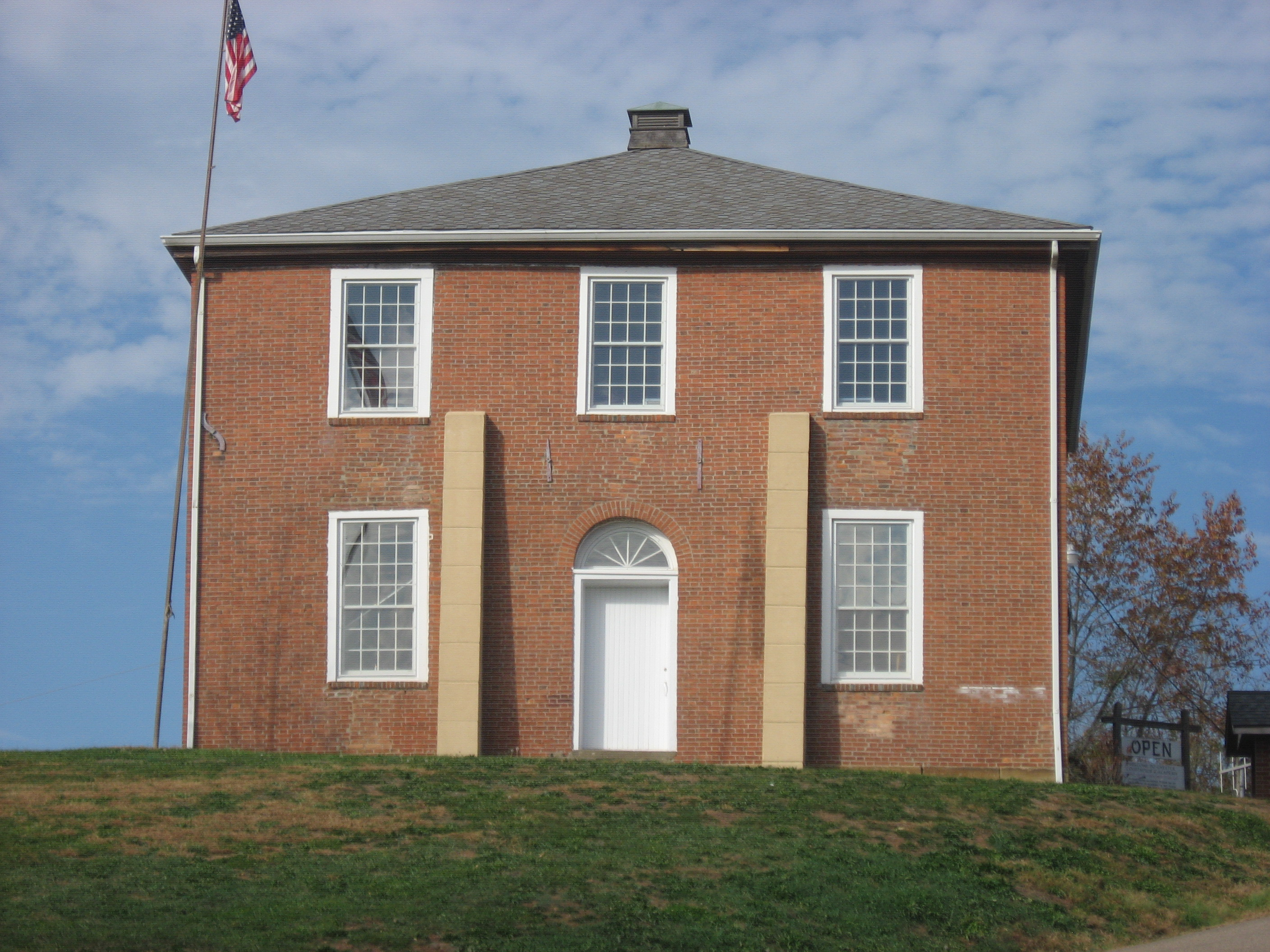 Southern side of the Old Meigs County Courthouse, located along State Route 248 near Chester in Meigs County, Ohio, United States. Built in 1823, the courthouse is listed on the National Register of Historic Places along with the adjacent former Chester Academy.